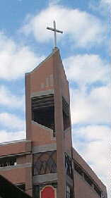 St. Timothy's Church, Episcopal Church in Taiwan